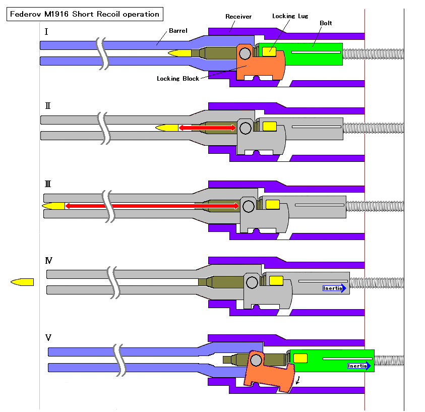 A schematic of the Fedorov AvtomatShort Recoil system.